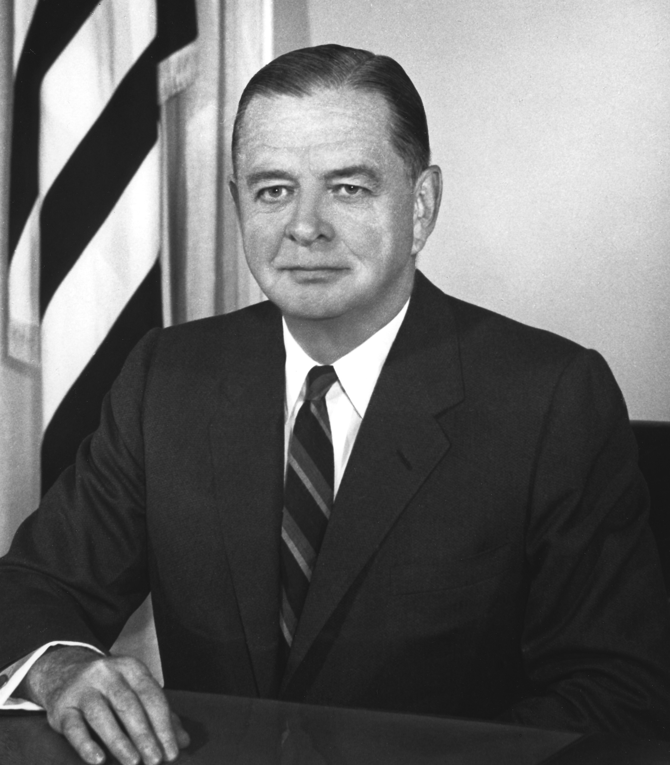 Official Photograph of James H. Douglas, Jr. 5th Secretary of the Air Force